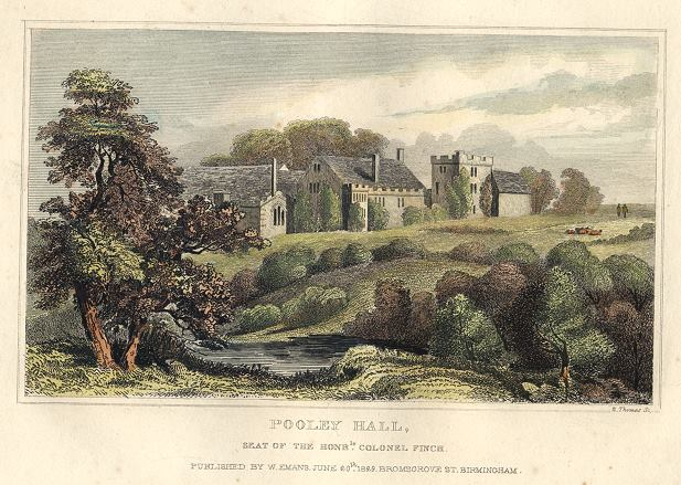 A Copper engraved print of Pooley Hall 1829